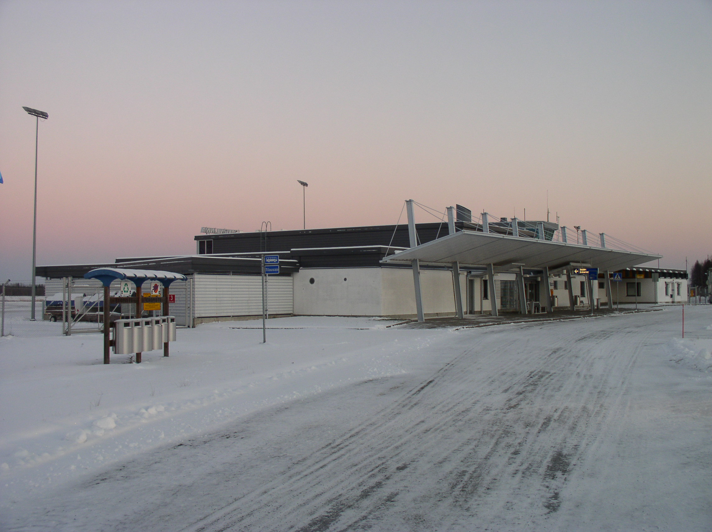 Savonlinna Airport, Savonlinna, Finland, terminal building